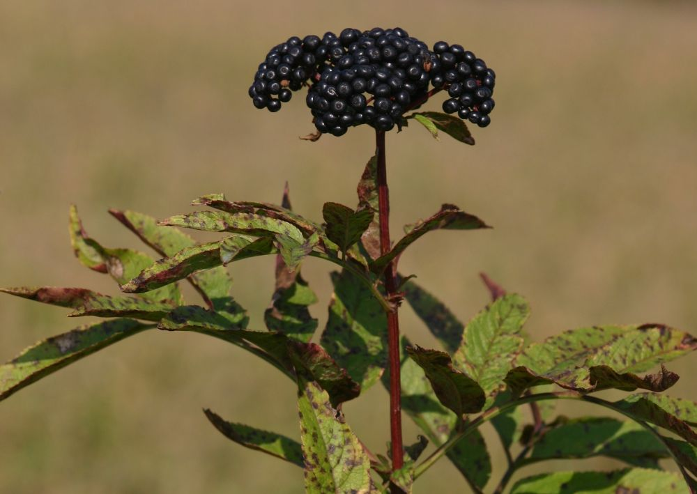 Sambucus ebulus in Mekszikópuszta, Hungary